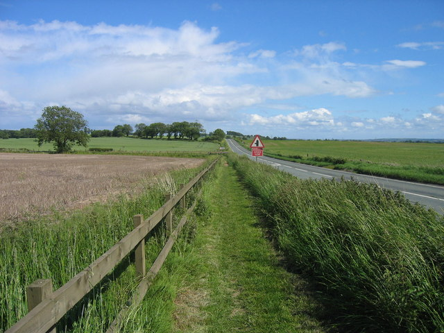 Hadrian's Wall Footpath and Military Road (B6318) near Harlow Hill